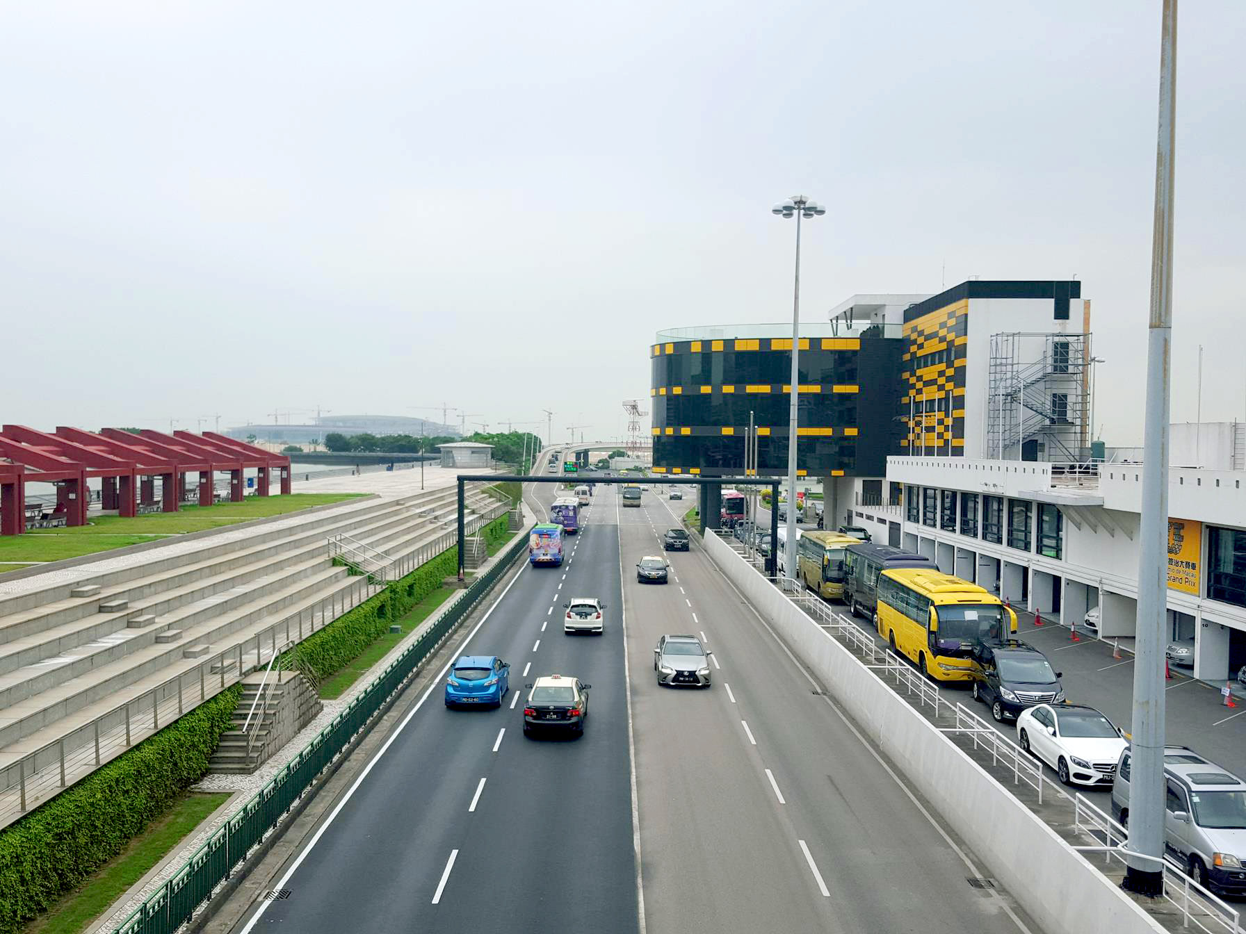 Friendship Avenue in Macau